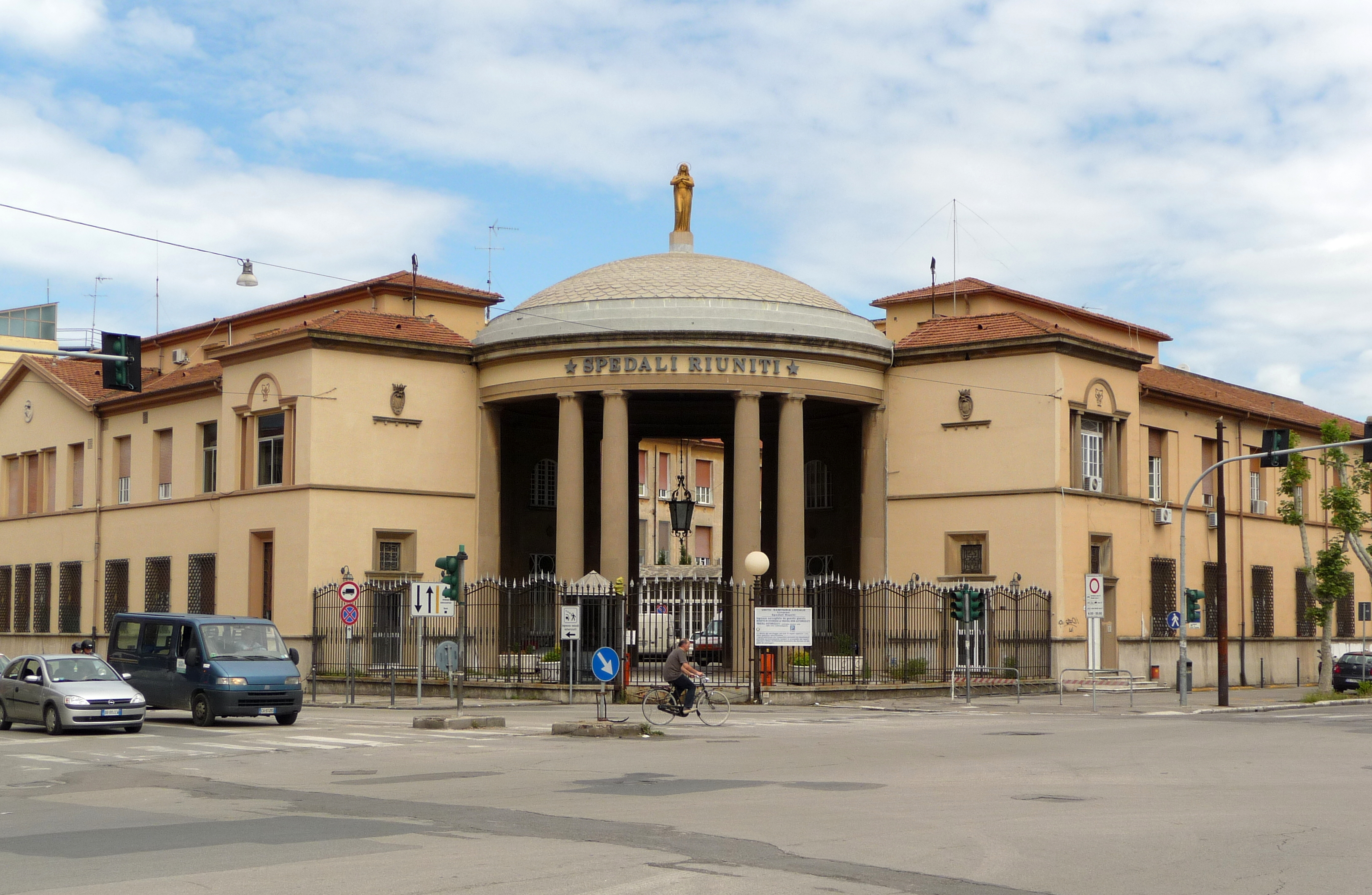 Hospital "Spedali Riuniti", Livorno, Italy